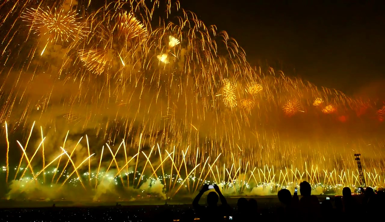 Phoenix Fireworks at the Nagaoka Festival Fireworks 2015, Japan